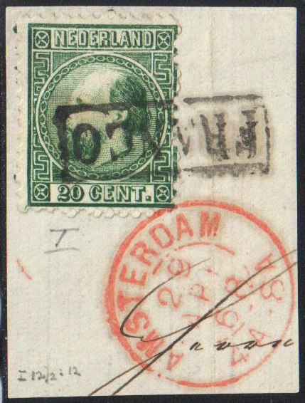 Netherlands 1867, 20c used, black boxed 'FRANCO' and additional red circular 'AMSTERDAM, 29 APR 68, 4A-8A'. NVPH type IA.